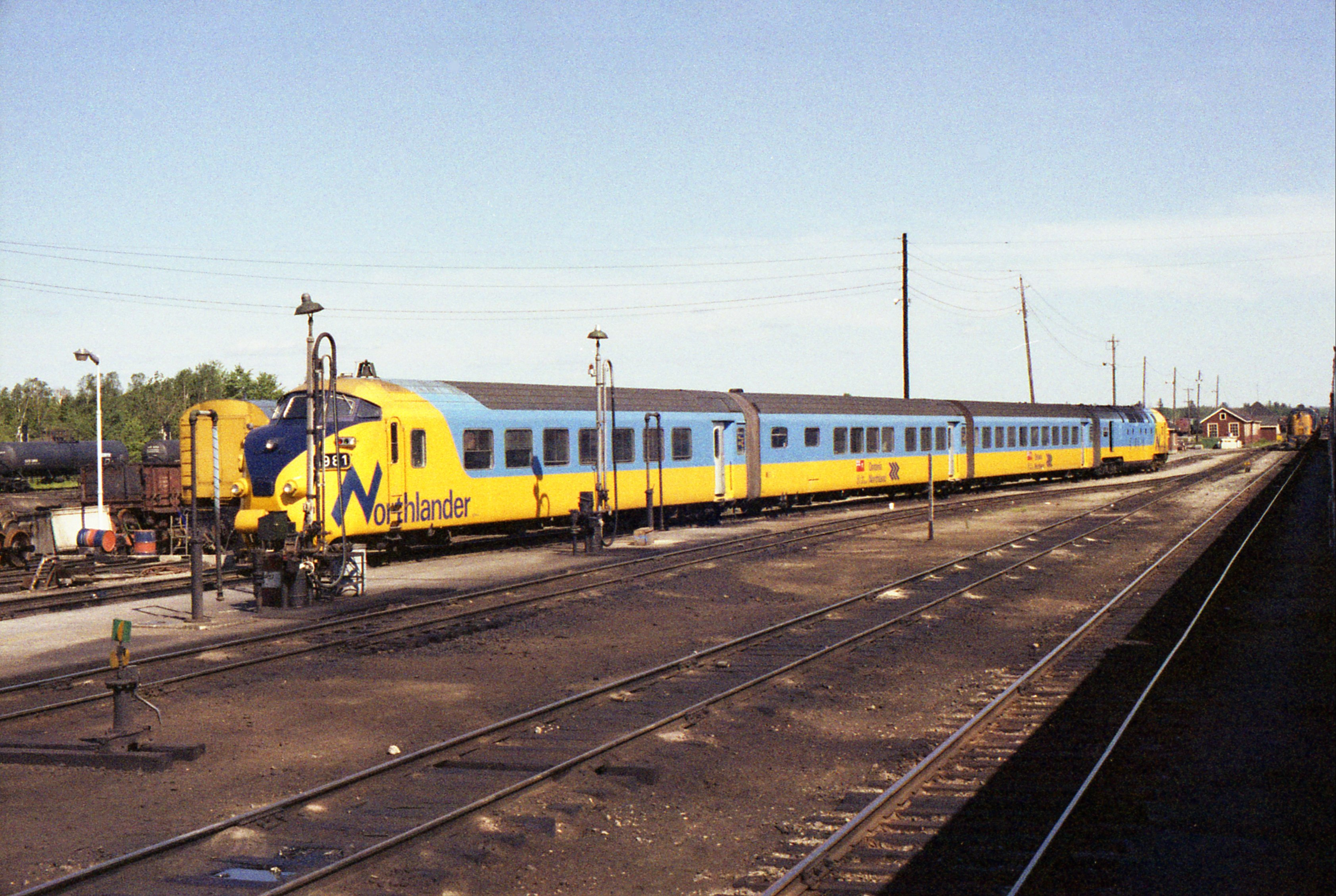 A Northlander Diesel railcar unit at rest outside a railroad depot in Canada. June 1979 Camera: Olympus OM1 35mm SLR. Film: Kodacolour.